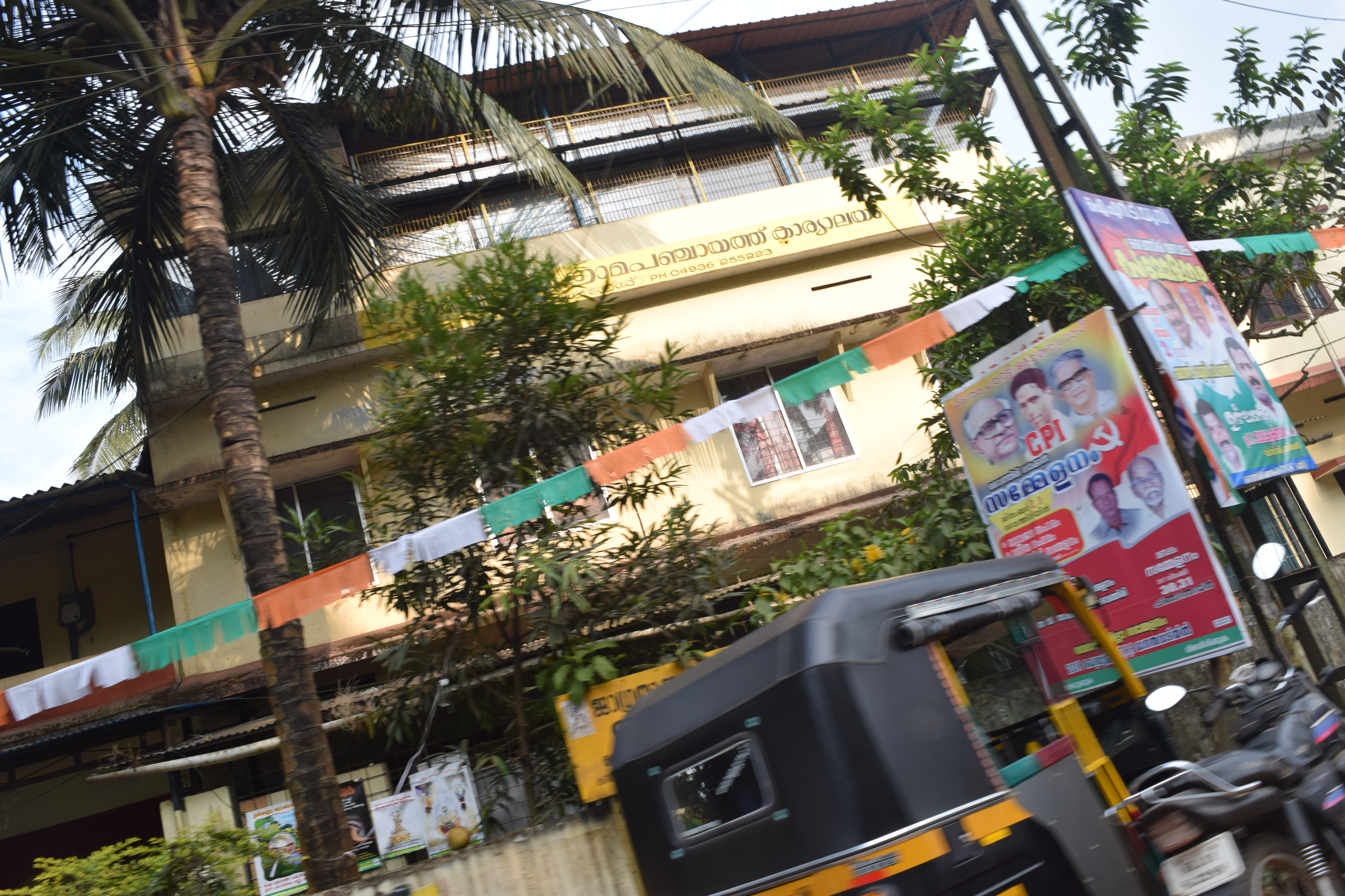 Vaithiri Gramapanchayath Office